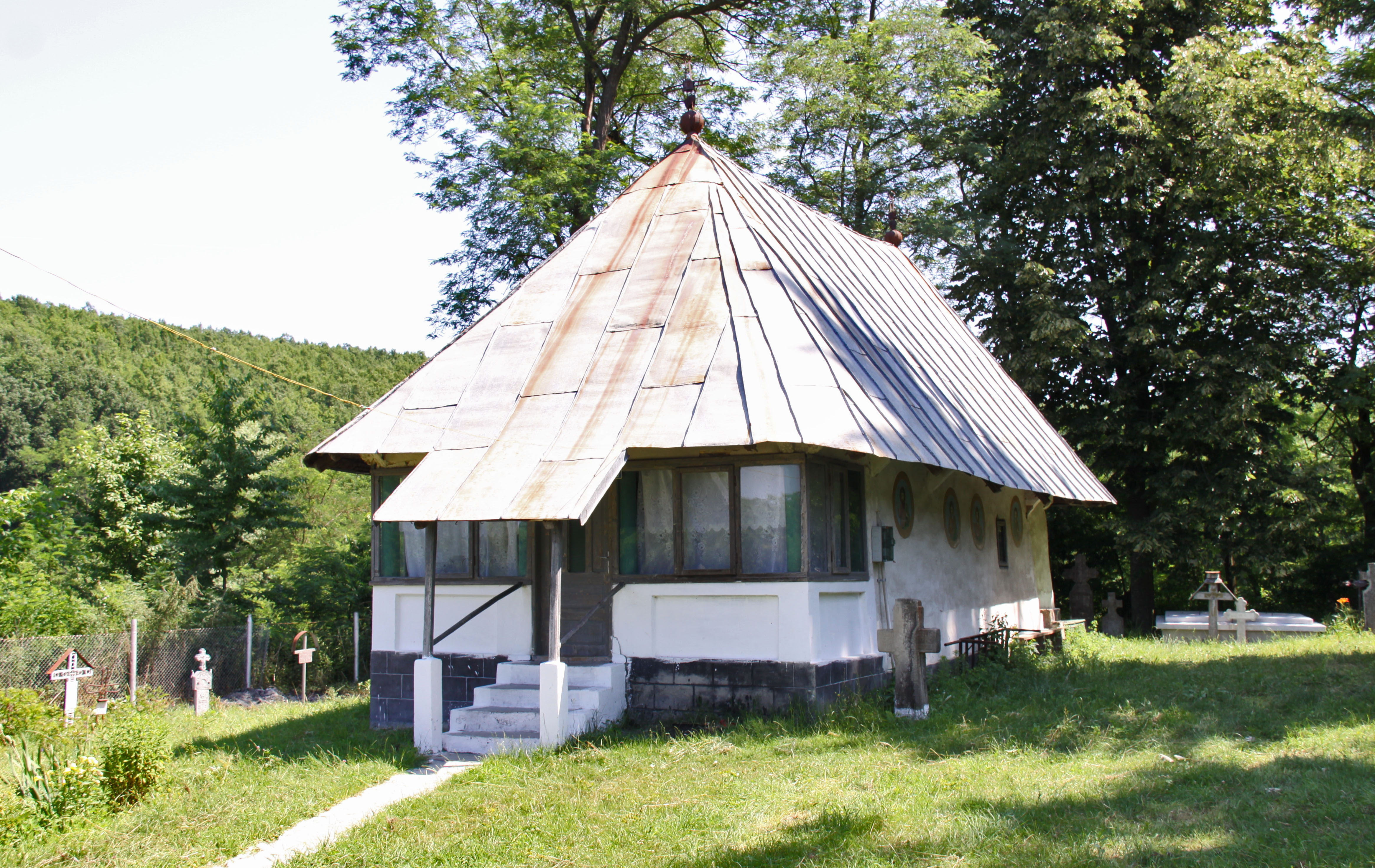 Pârâu Boia, Gorj county, Romania: the wooden church, South-West.